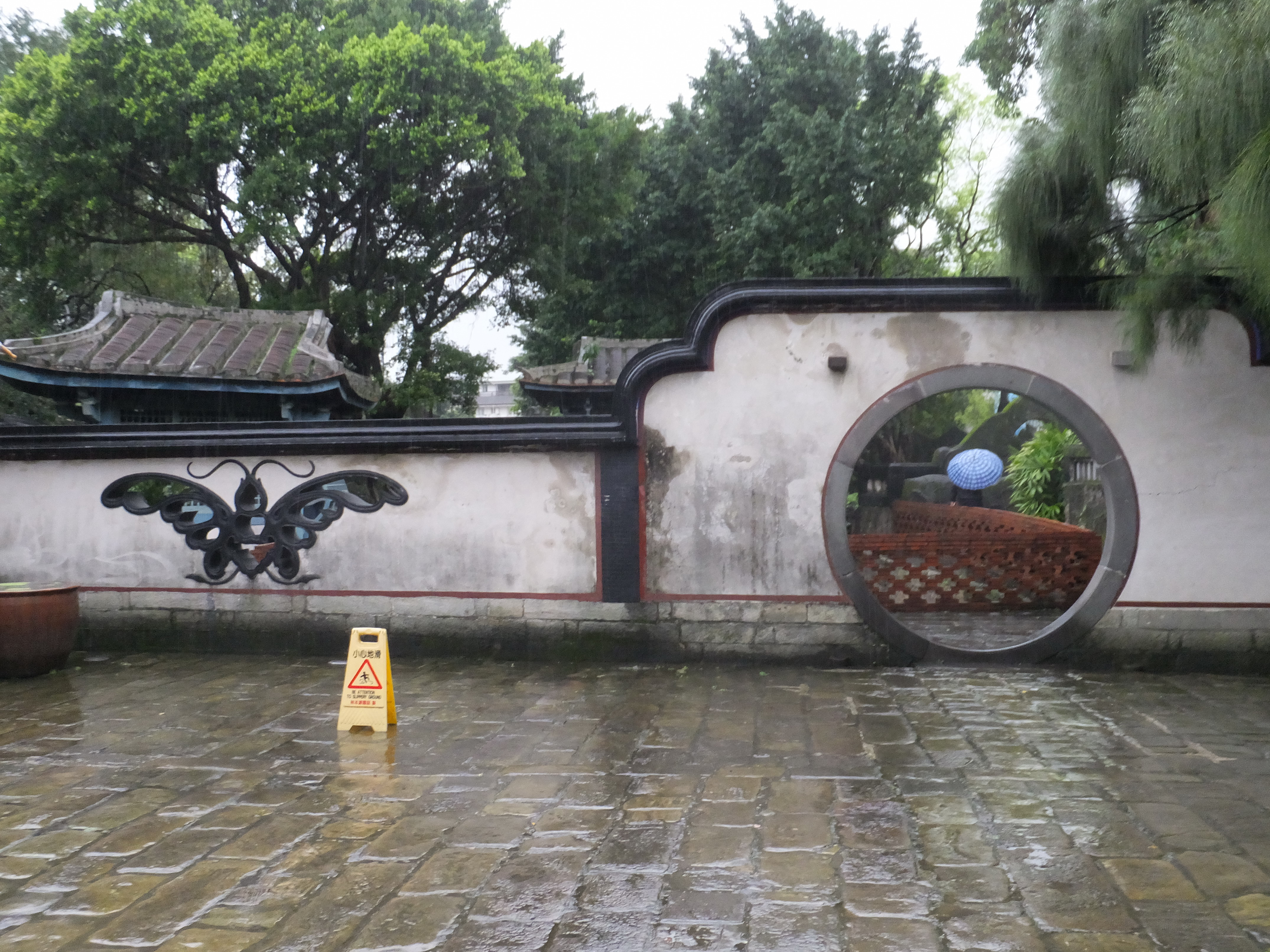 The Lin Family Mansion and Garden 林家花園